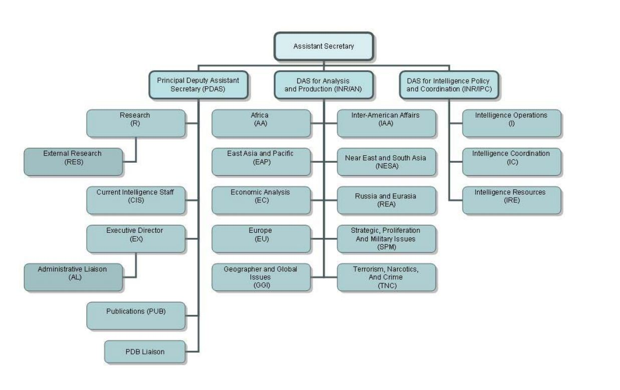 INA DoS structure